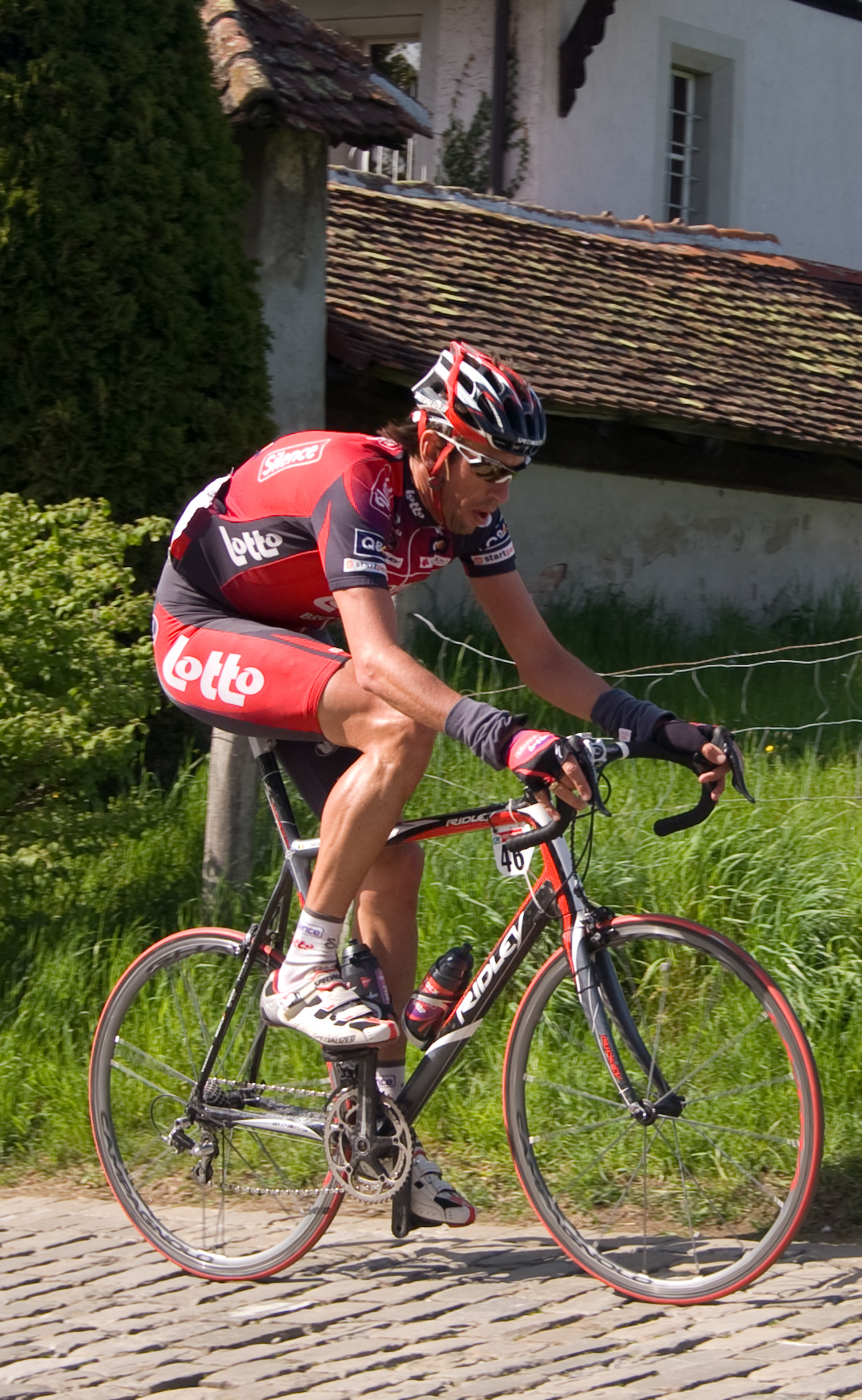 Bert Roesems, Tour de Romandie 2008, 2nd stage.